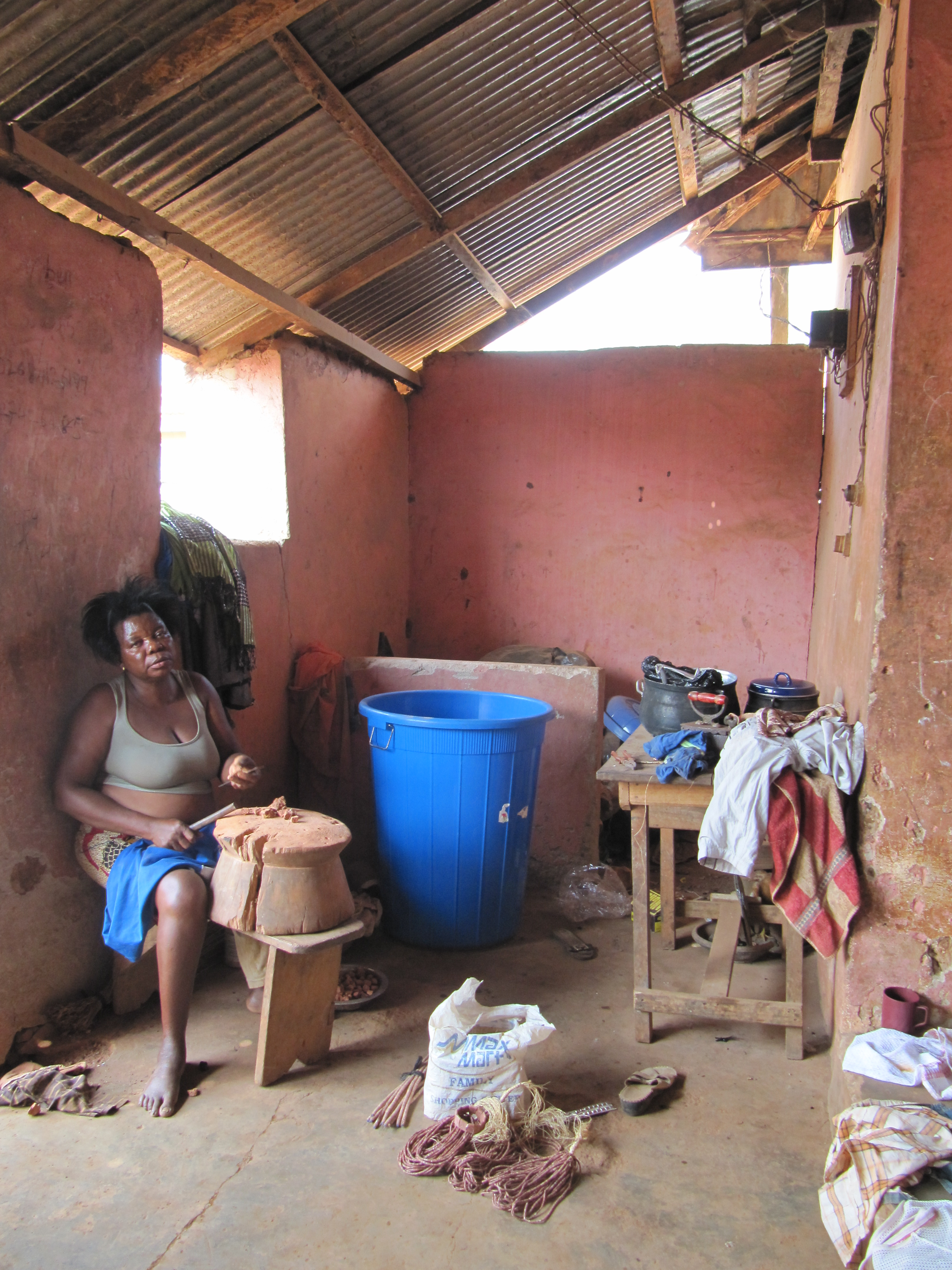 The woman is making beads from bauxite. Abompe village, Ghana This is an image of Cultural Fashion or Adornment from Ghana